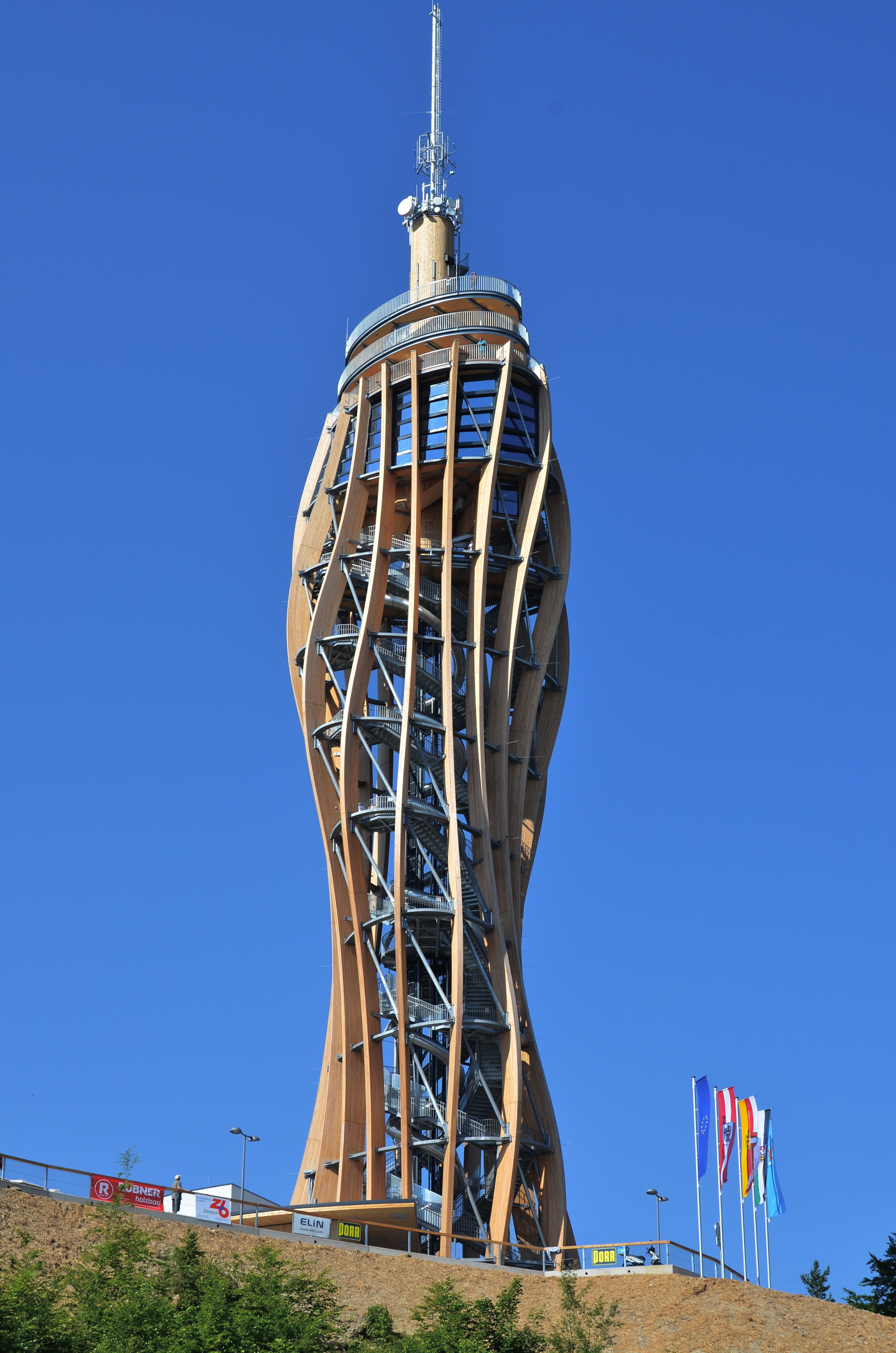 New look-out tower on top of the Pyramid ballon (Pyramidenkogel), municipality Keutschach am See, district Klagenfurt Land, Carinthia / Austria / EU